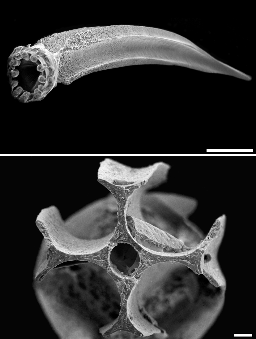 Scanning electron microscopic (SEM) images love-dart of Cepaea hortensis. Upper image is love dart from side view while the measure is 500 μm (0.5 mm). Lower image is cross-section while the measure is 50 μm.